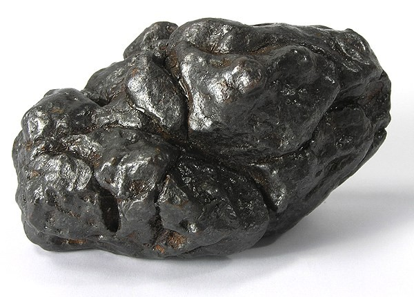 Iron (Var.: Kamacite) Locality: Nantan meteorites (Nandan meteorites), Lihu - Yaochai area, Nandan County, Hechi Prefecture, Guangxi Zhuang Autonomous Region, China (Locality at ) Size: 7.9 x 4.2 x 3.9 cm. A LARGE meteorite from a witnessed fall! From the accompanying literature: "Nantan iron meteorites represent one of the rare witnessed iron meteorite falls in the world. The fall was vividly recorded (in Chinese records): “During summertime in May of Jiajing 11th year, stars fell from the northwest direction, five to six fold long, waving like snakes and dragons. They were bright as lightning and disappeared in seconds. These records show the meteorite to have fallen in the year 1516 AD. The fall site was not discovered until much later, in 1958. The specimens have a coarse octahedral structure, and contain 92.35% iron and 6.96% nickel, belonging to IIICD classification of Wasson et al (1980’s).” This is a VERY LARGE one, weighing 223 grams!